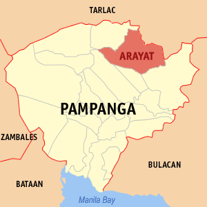 Map of Pampanga showing the location of Arayat